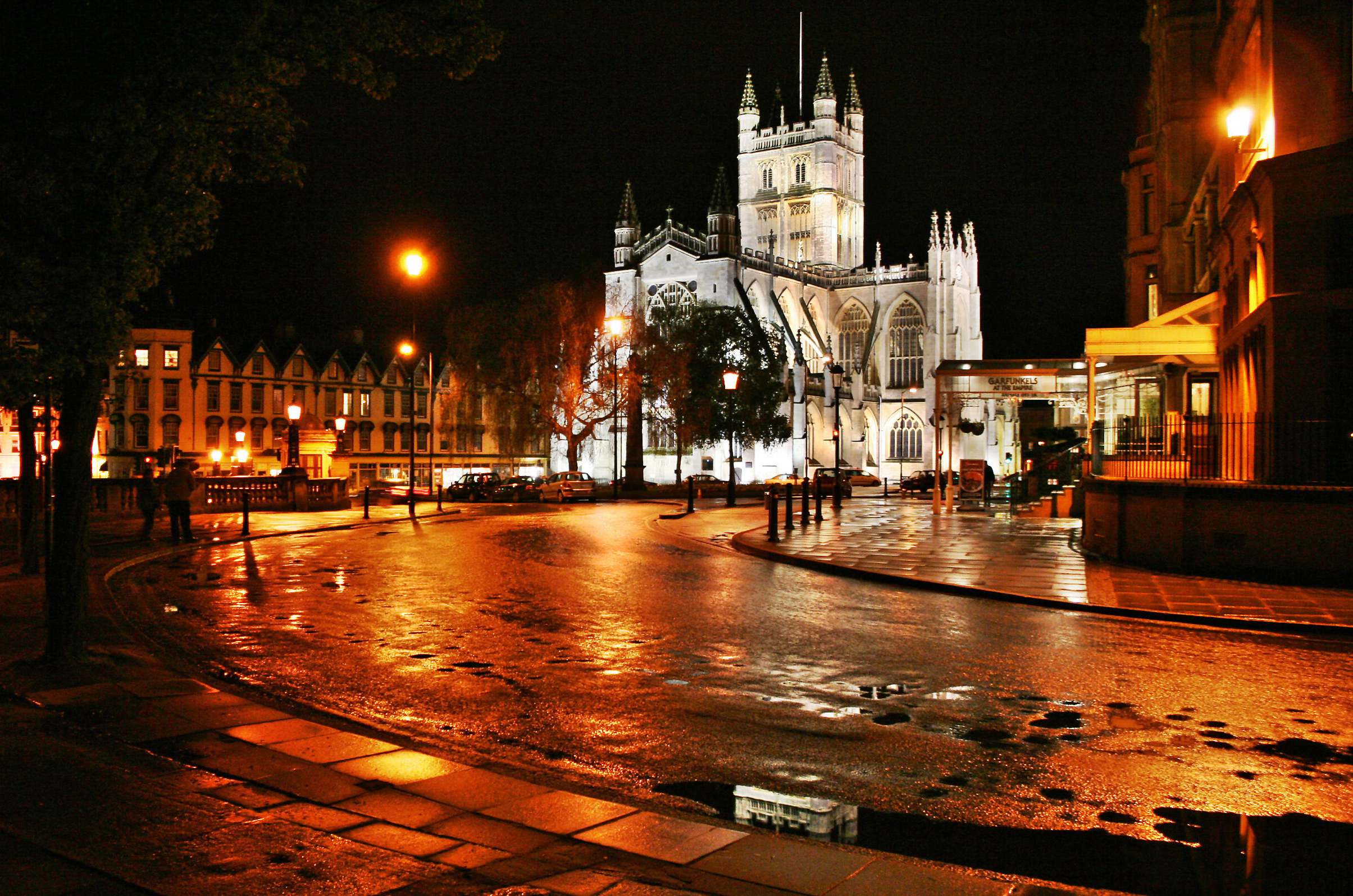 Abbey of Bath, England